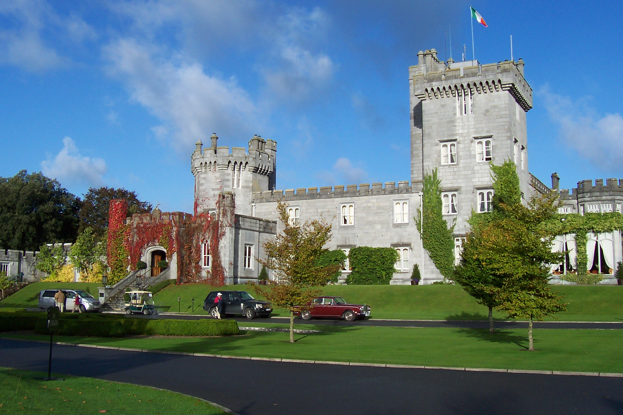 Entrance to Dromoland Castle, Ireland. Photographed by Srleffler in October 2006.